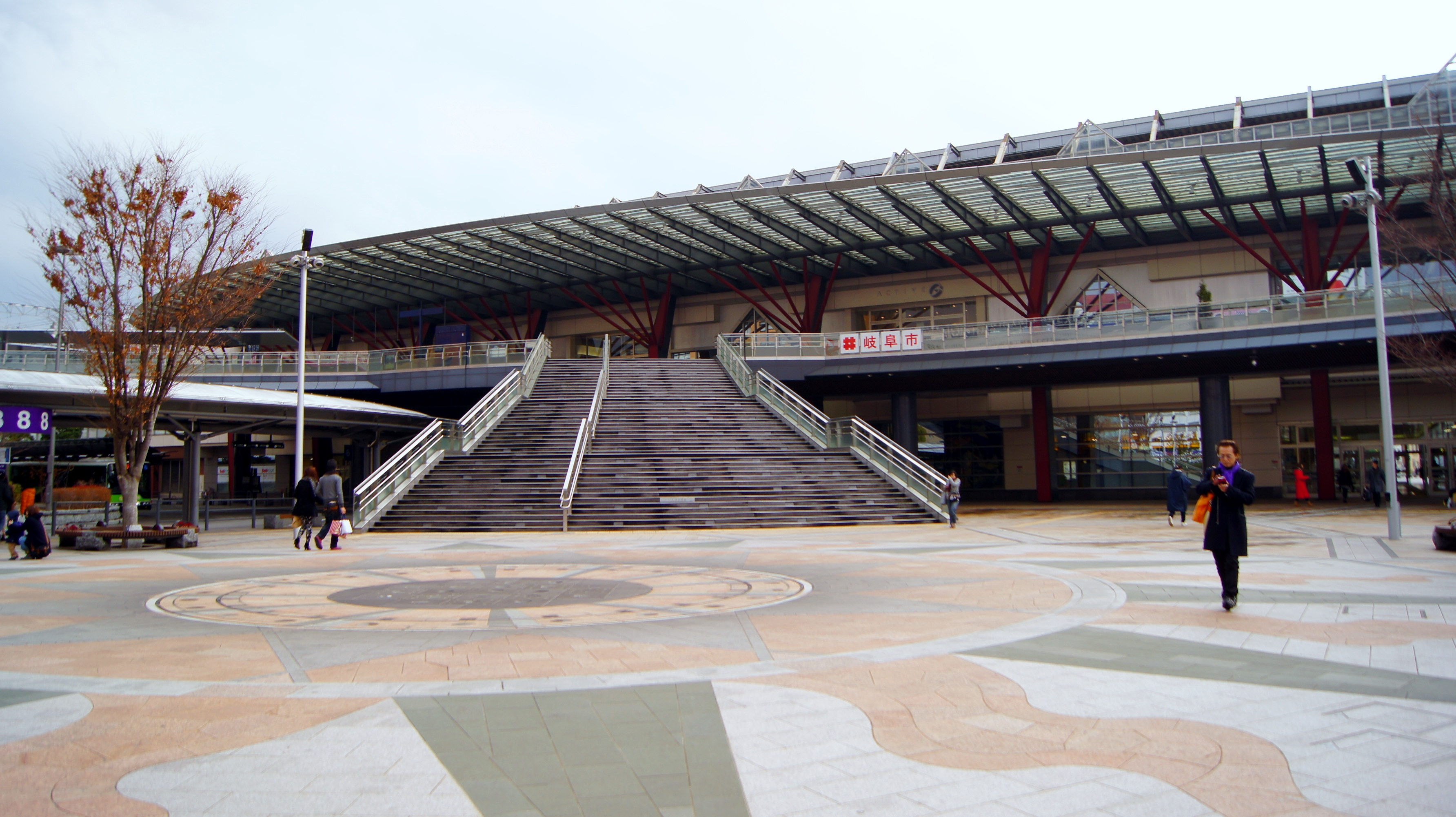 Gifu Station entrance stairway